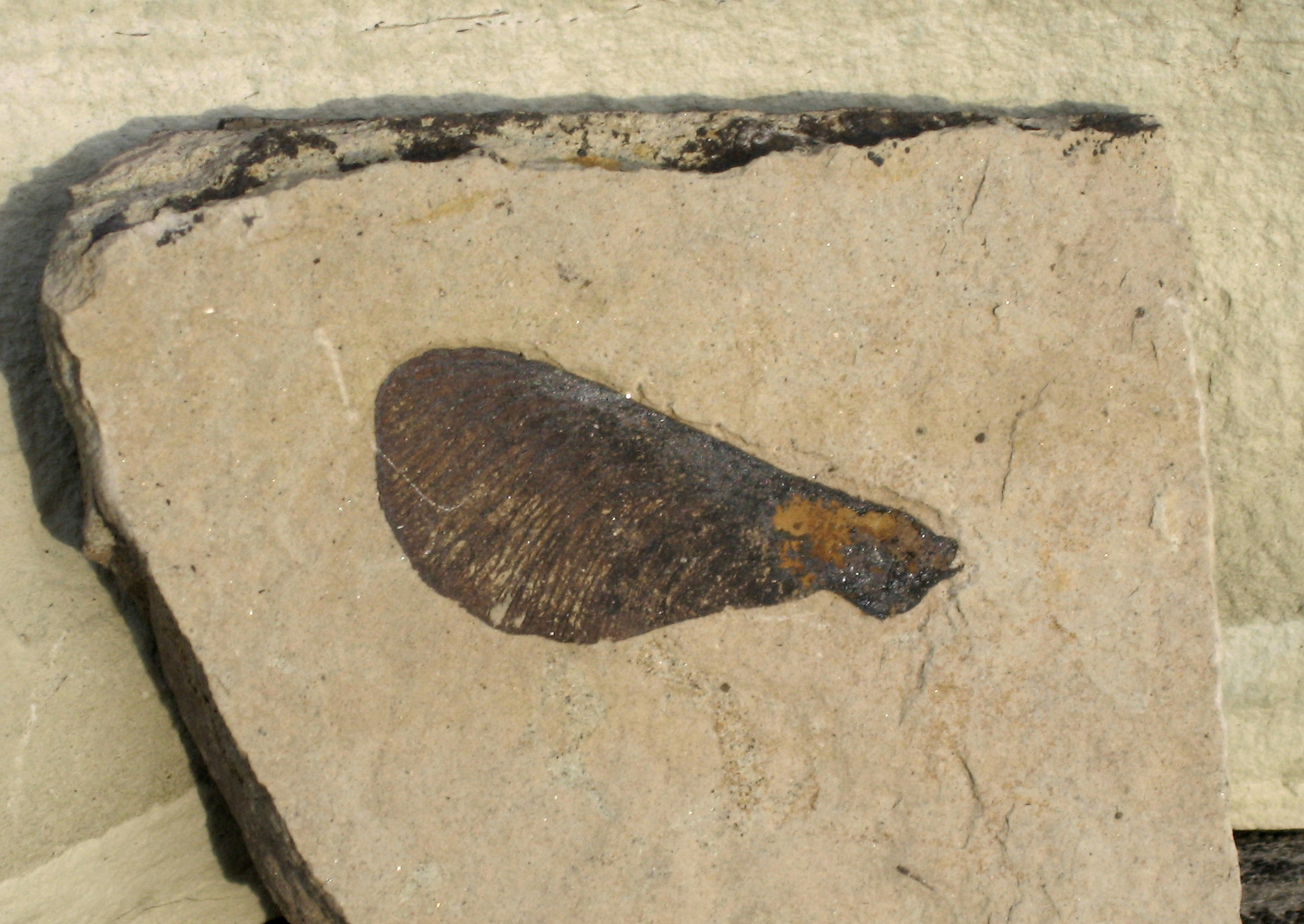 An Acer samara 2.8cm long. Klondike Mountain Formation, Republic, Ferry County, Washington, USA, Eocene, Ypresian, 49million years old. Stonerose Interpretive Center Collection #